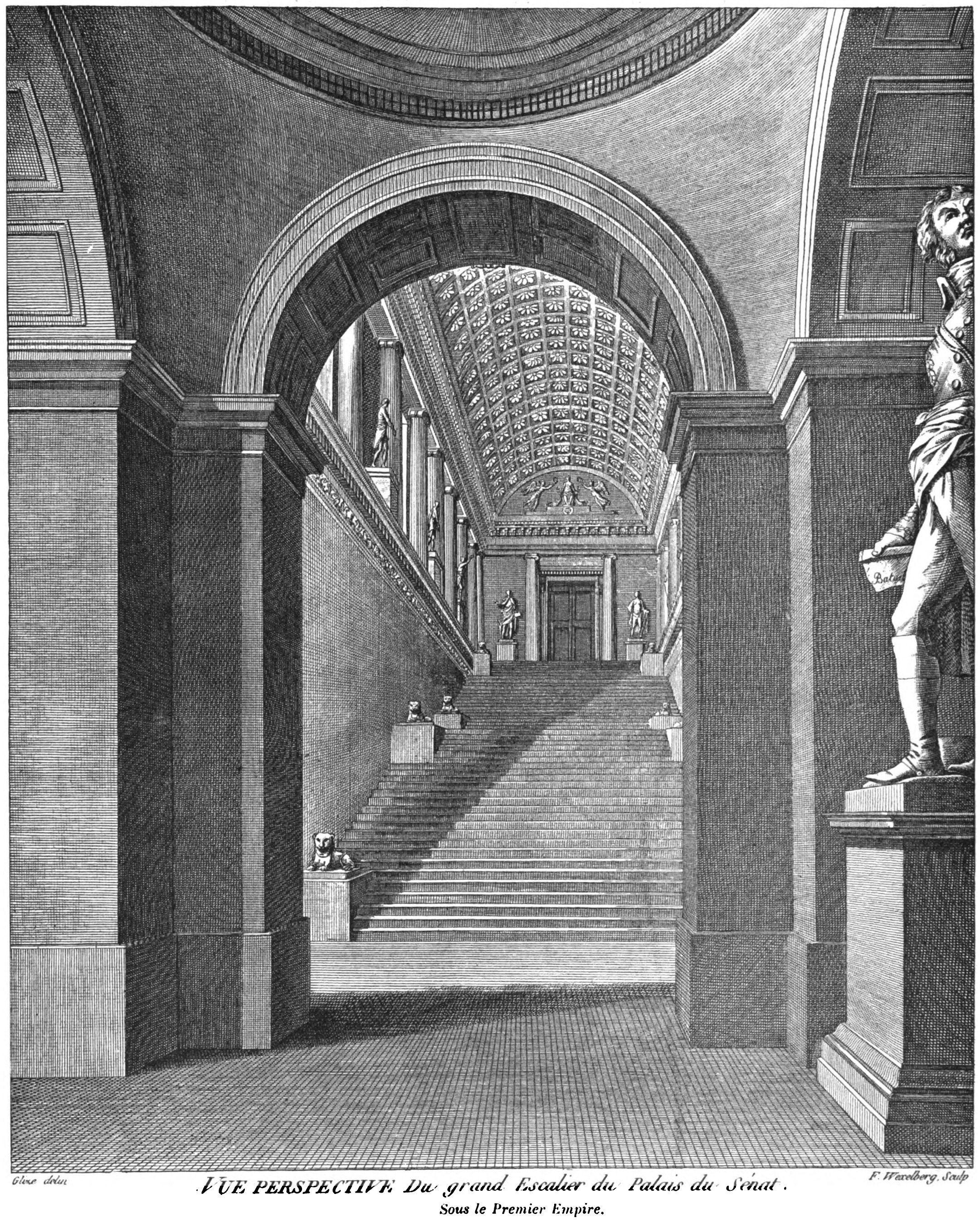 Perspective view of the grand staircase of the Palais du Luxembourg in Paris (located in the west wing, looking south), as designed by Jean Chalgrin in 1806